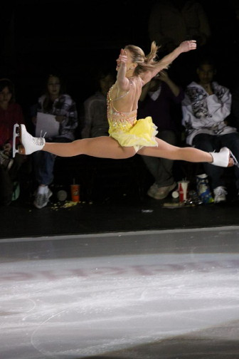 Joannie Rochette performs a split jump at the 2009 Stars On Ice show in Halifax, Nova Scotia.